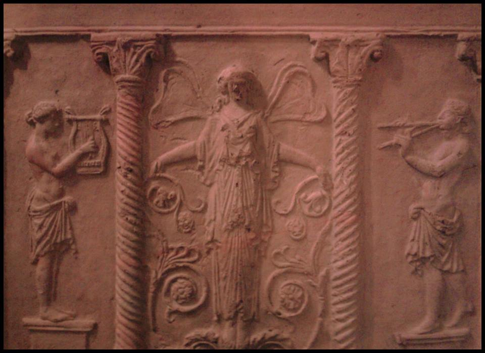 Psiche